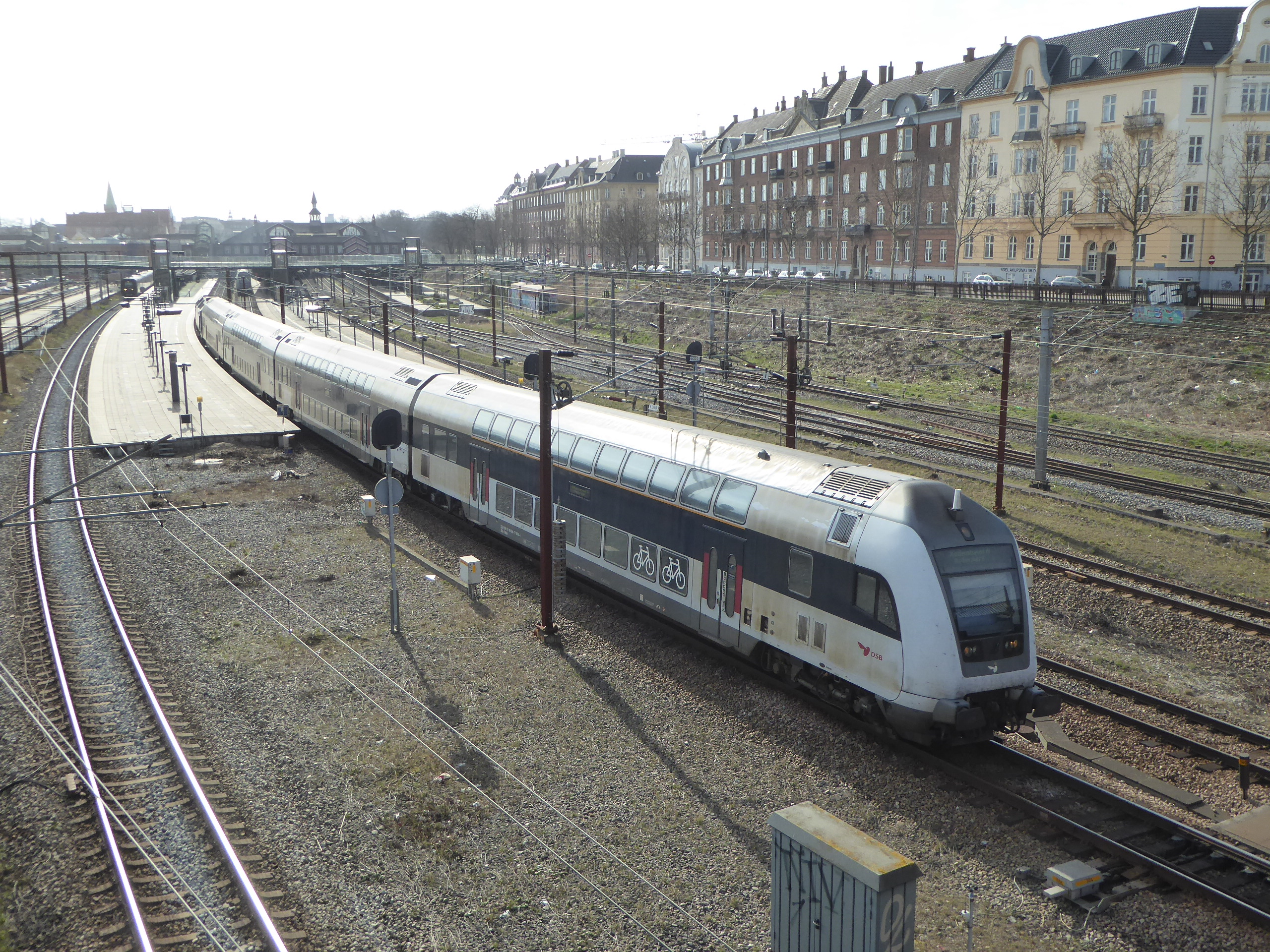 Double-decker train at Østerport Station in Østerbro in Copenhagen.